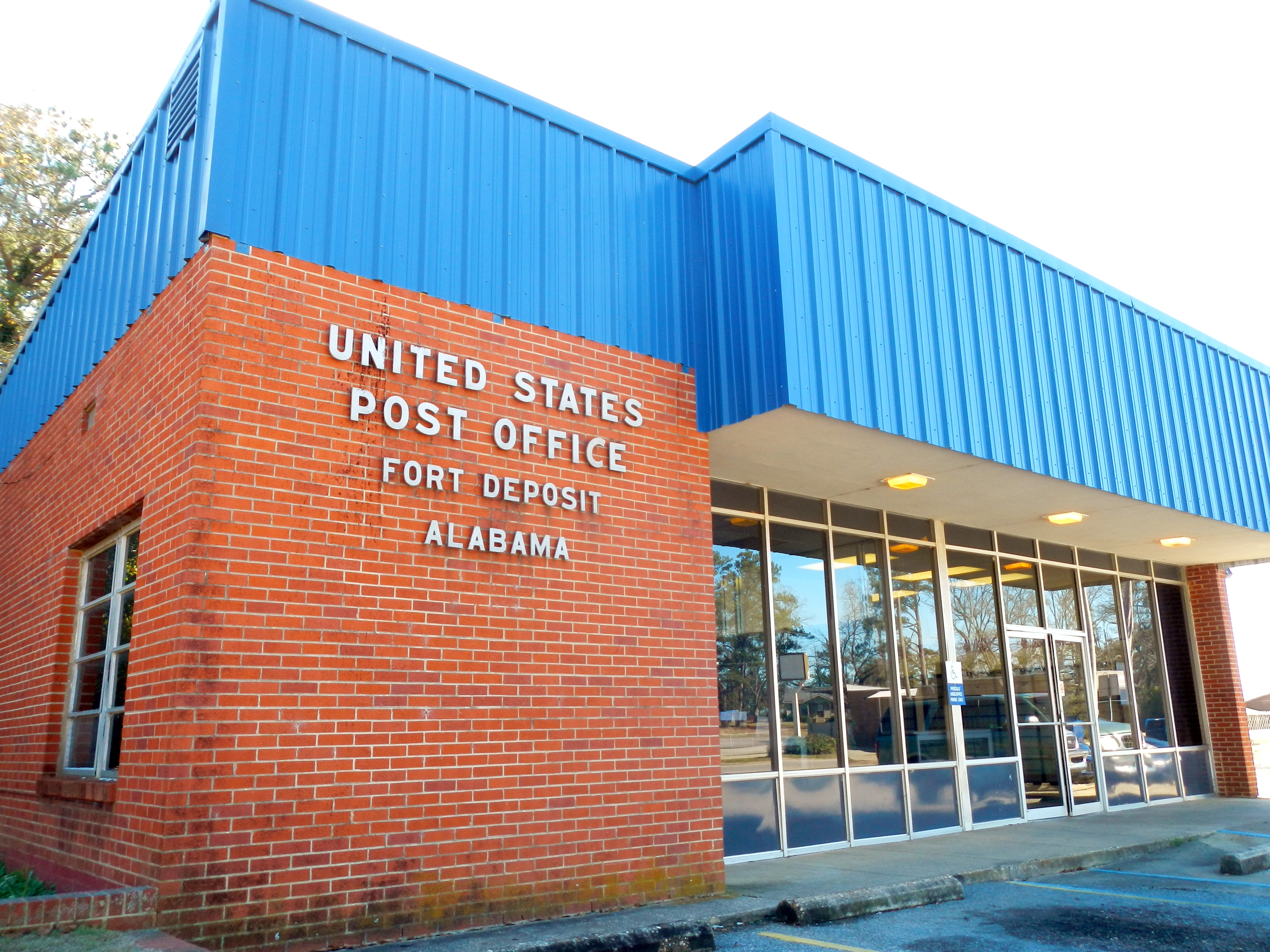 This is a photograph of the post office in Fort Deposit, Alabama.